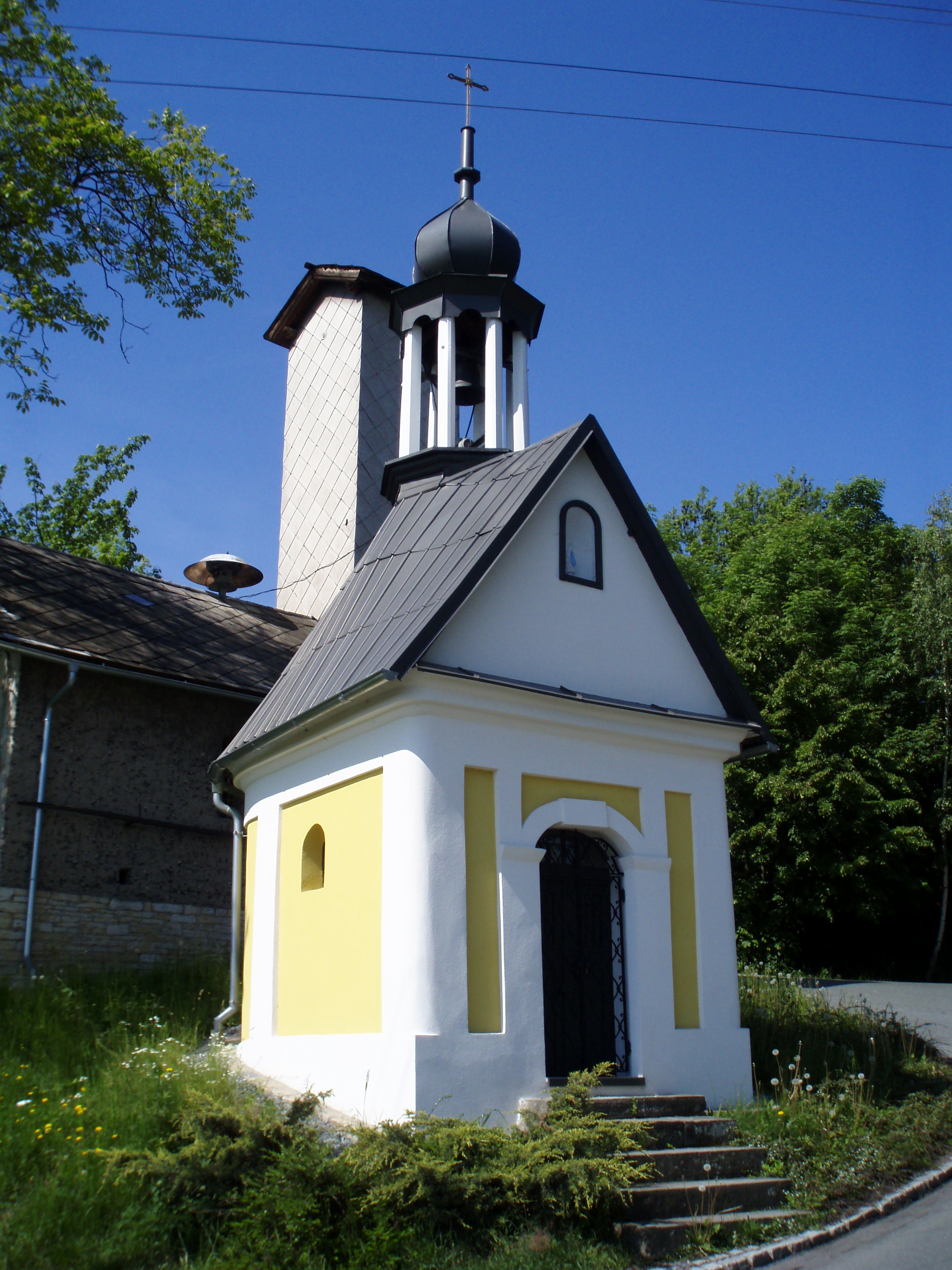 Chapel in Litoboř (District of Náchod, Czech Republic)